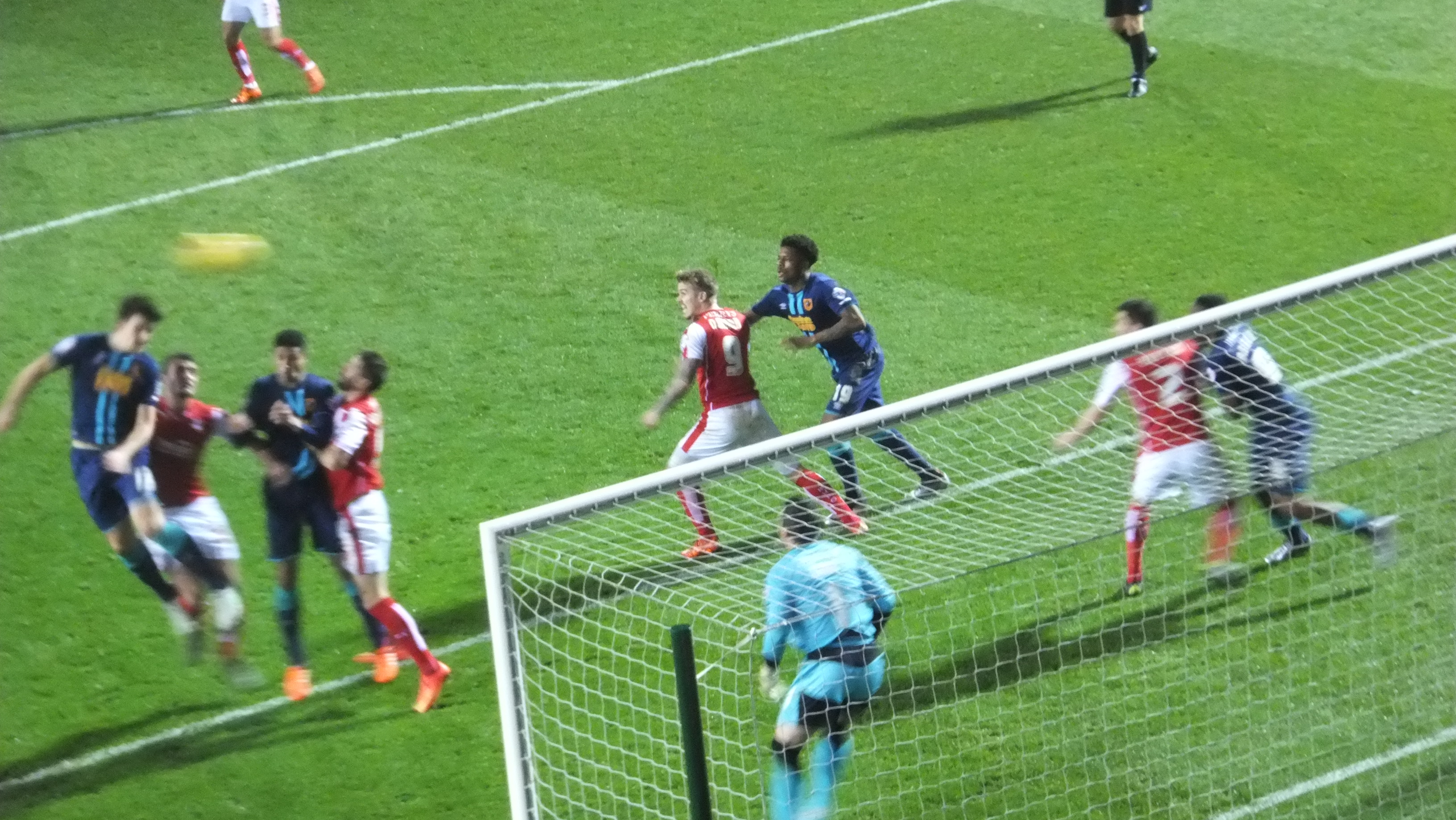 Comes to nowt